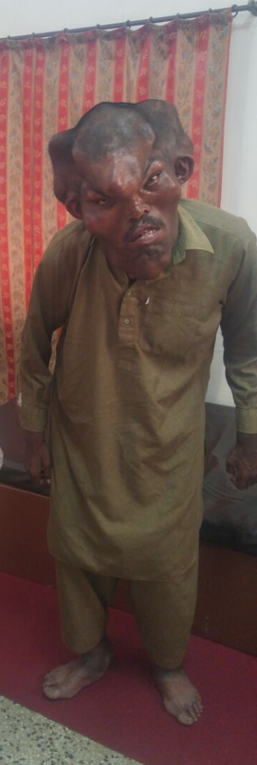 A patient of Proteus Syndrome, courtesy Dr. Asad from Lahore